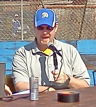 Sports radio host Damon Bruce interviewed at an event preceding the San Jose State football homecoming game on October 13, 2012.